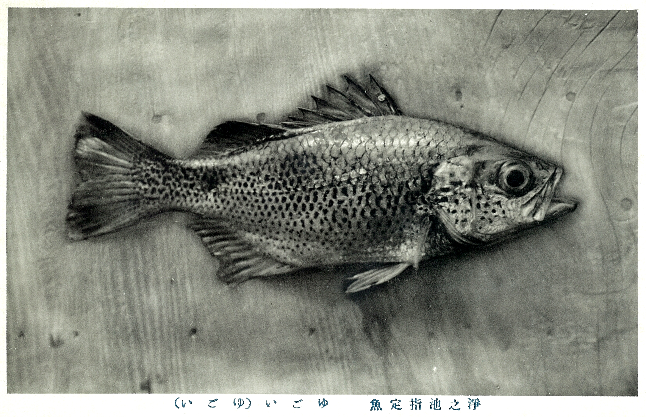 Jono-ike pond postcard. Spotted flagtail Old photographs